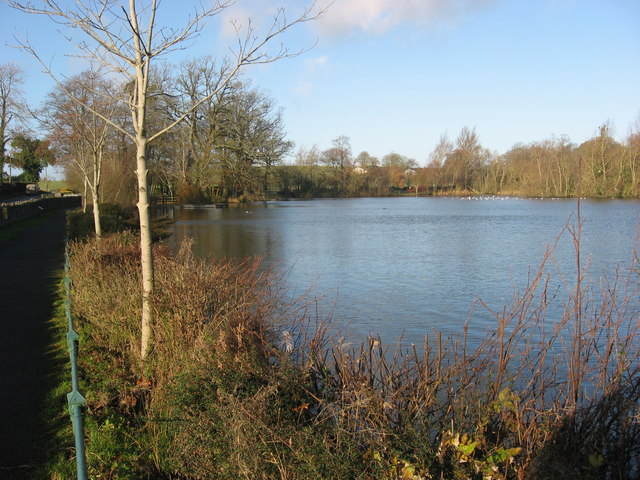 Stephenstown Pond, Knockbridge, Co. Louth. Part of the demesne attached to Stephenstown House. Agnes Burns, sister of Robbie Burns, lived in Lakeview Cottage overlooking the pond. Cottage and pond restored as a nature park and conference centre in 1995-96 [1].